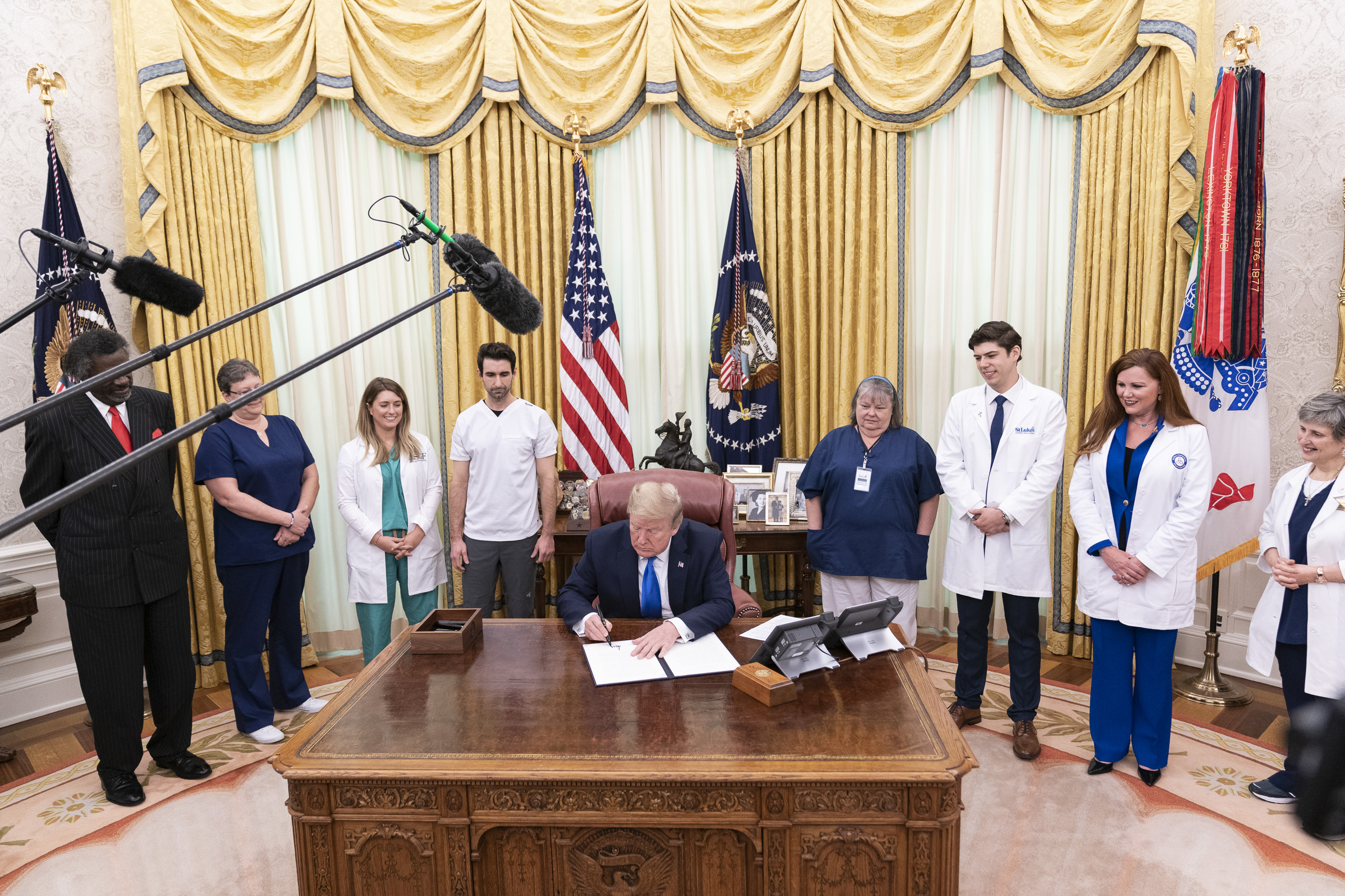 President Donald J. Trump is joined by health care and nursing association representatives, from left to right-Dr. Ernest Grant, Lisa Barlow, Caroline Few Elliot, Luke Adams, Marty Blankenship, Allen Zelno, Sophia Thomas and Maria Arvonio, to the Oval Office as he signs a proclamation in honor of National Nurses Day Wednesday, May 6, 2020, at the White House. (Official White House Photo by Shealah Craighead)